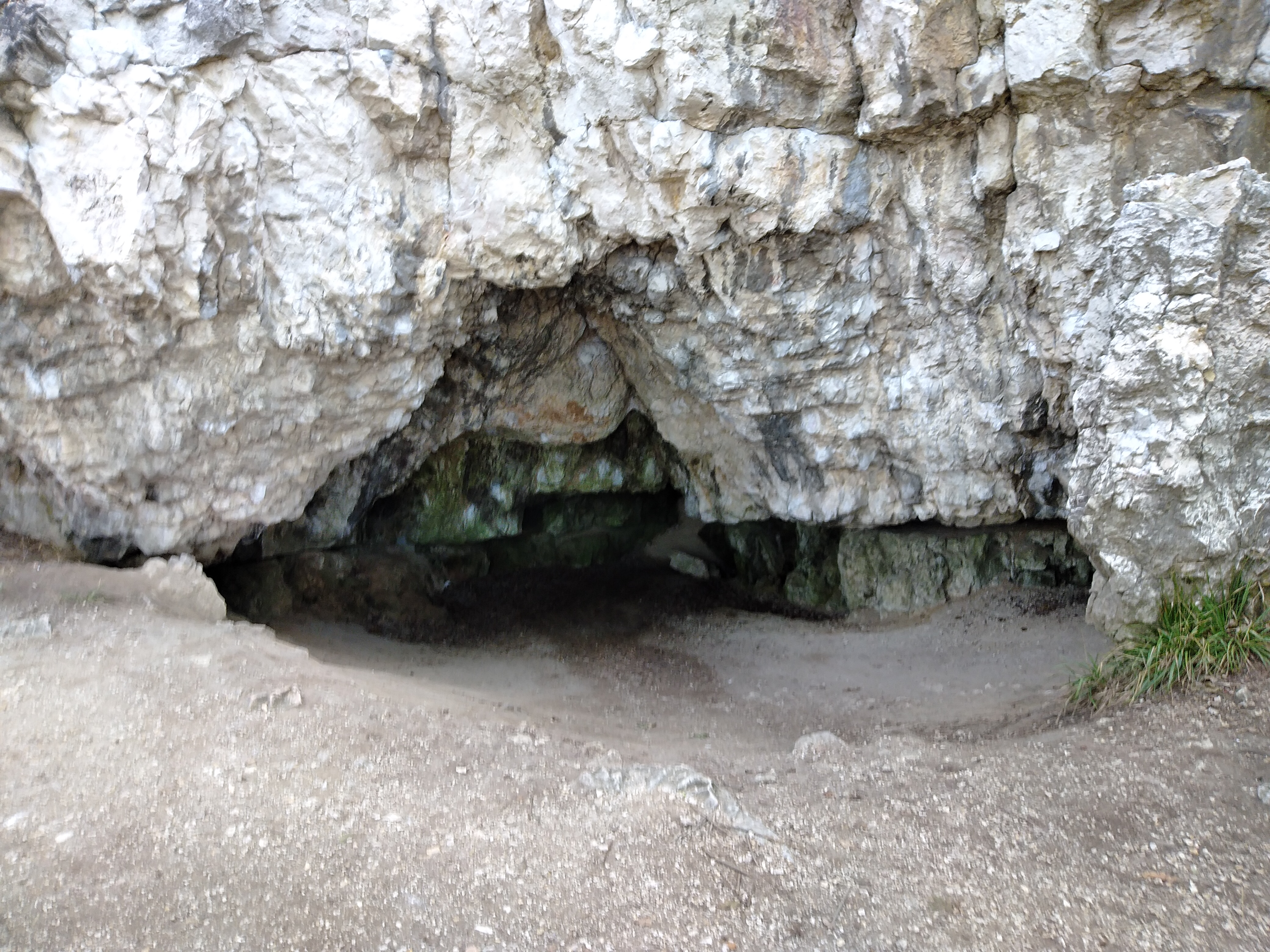 Eszterházy Cave in Tatabánya.